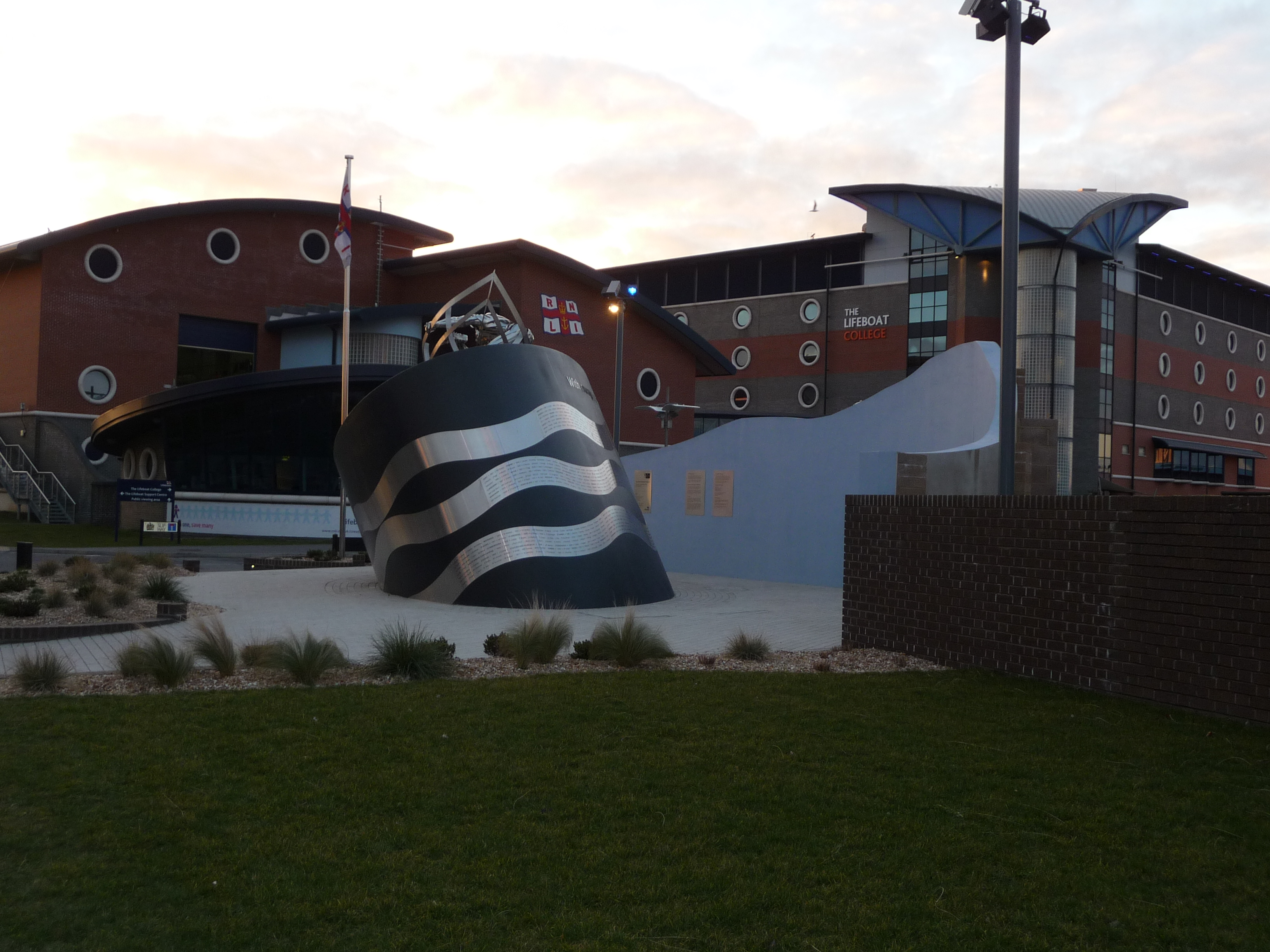 Poole : The Lifeboat College The Lifeboat College of the Royal National Life Boat Institution RNLI on West Quay Road.